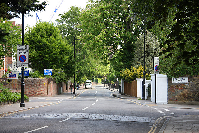 Hornsey Lane Seen at the junction with Hornsey Lane Gardens, on the left, and Whitehall Park.